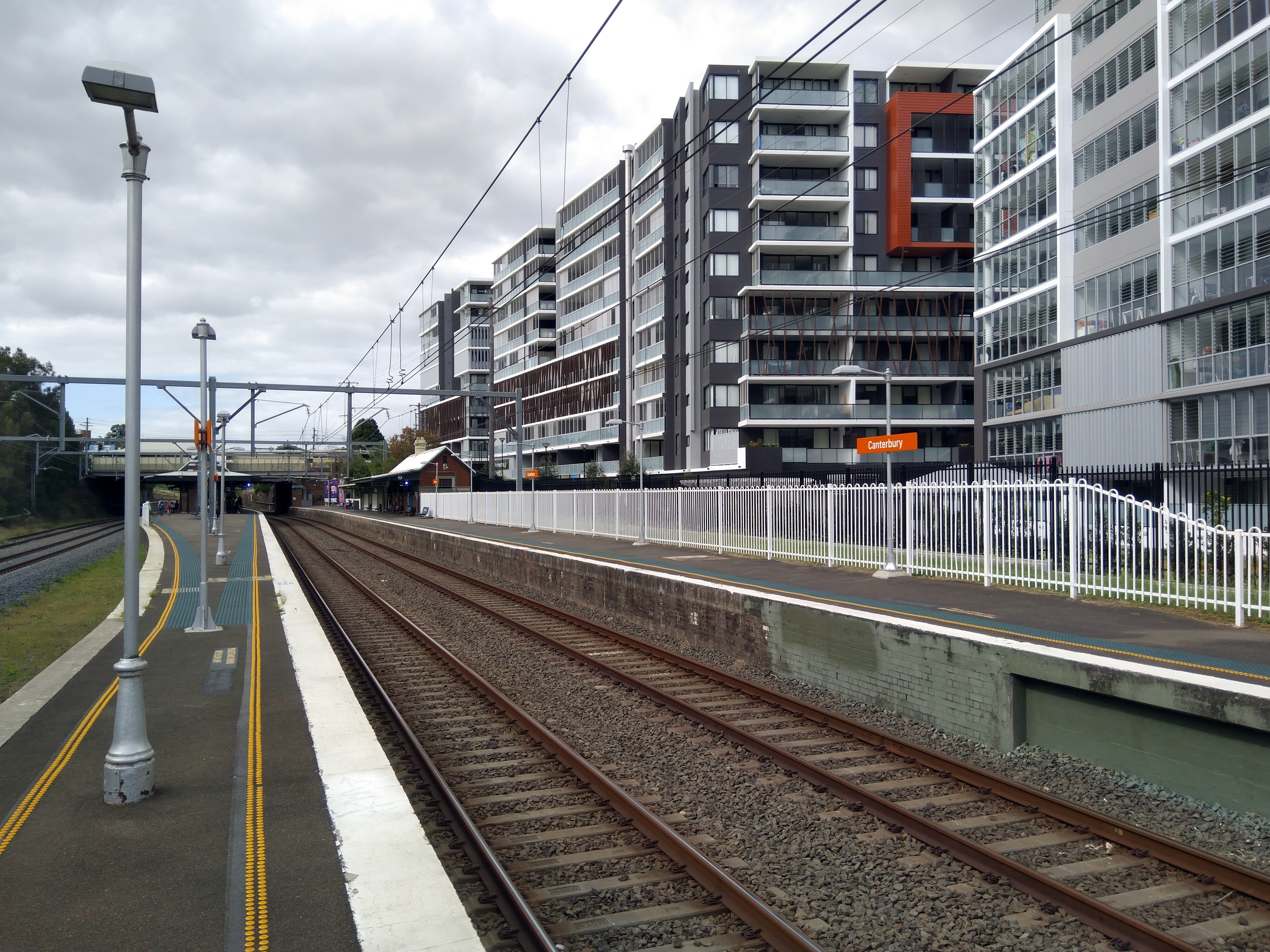 Platforms at Canterbury railway station.